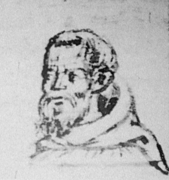 Drawing of Hetoum II. 14th century. Venice, Bilioteca Marciana. In "Le Royaume d'Armenie et de Cilicie", p.70